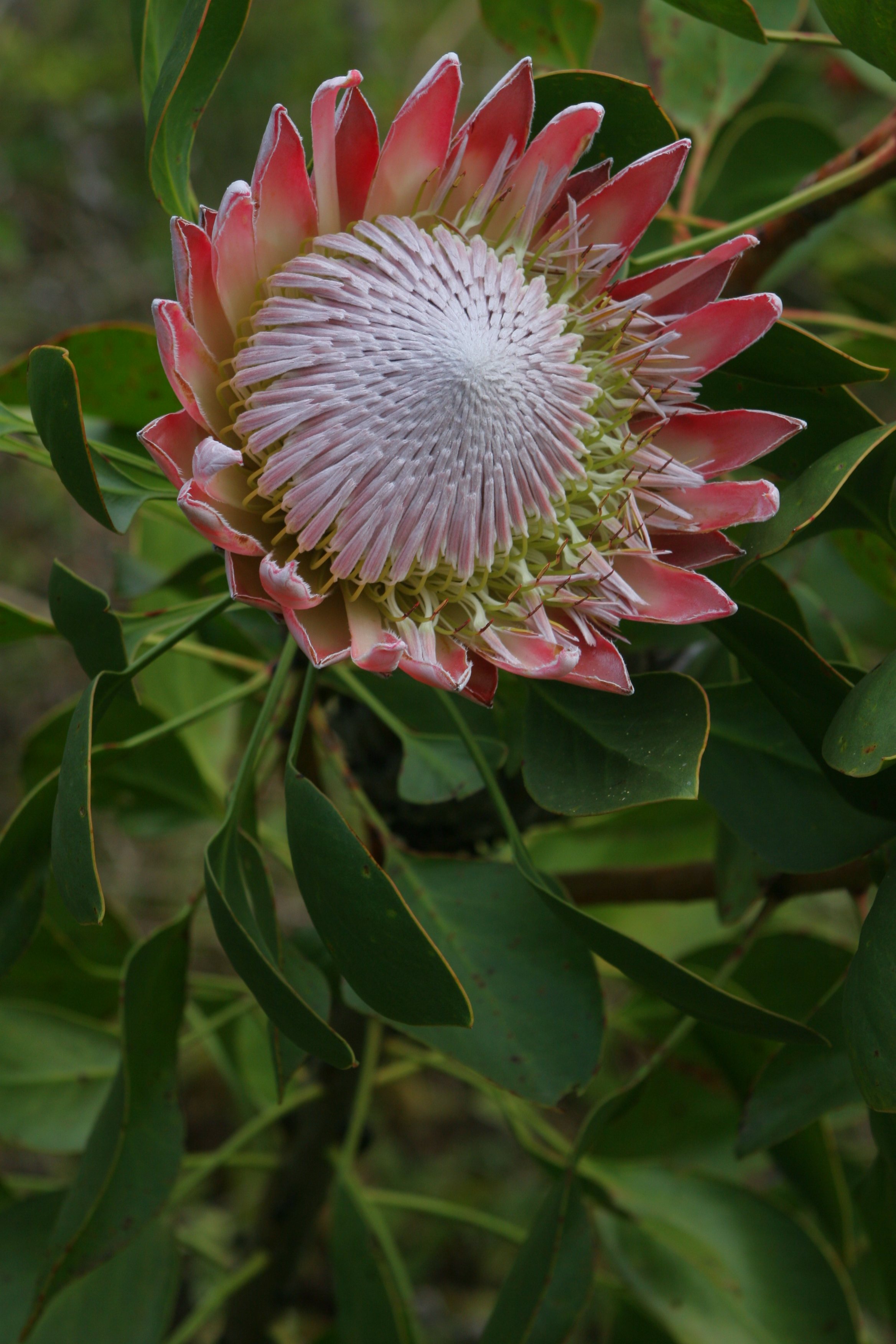 Protea Cynaroides, taken at Kirstenbosch, South Africa